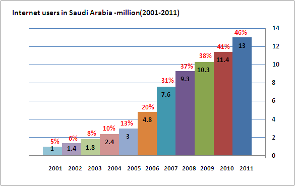 the growth of the number of internet users in ksa